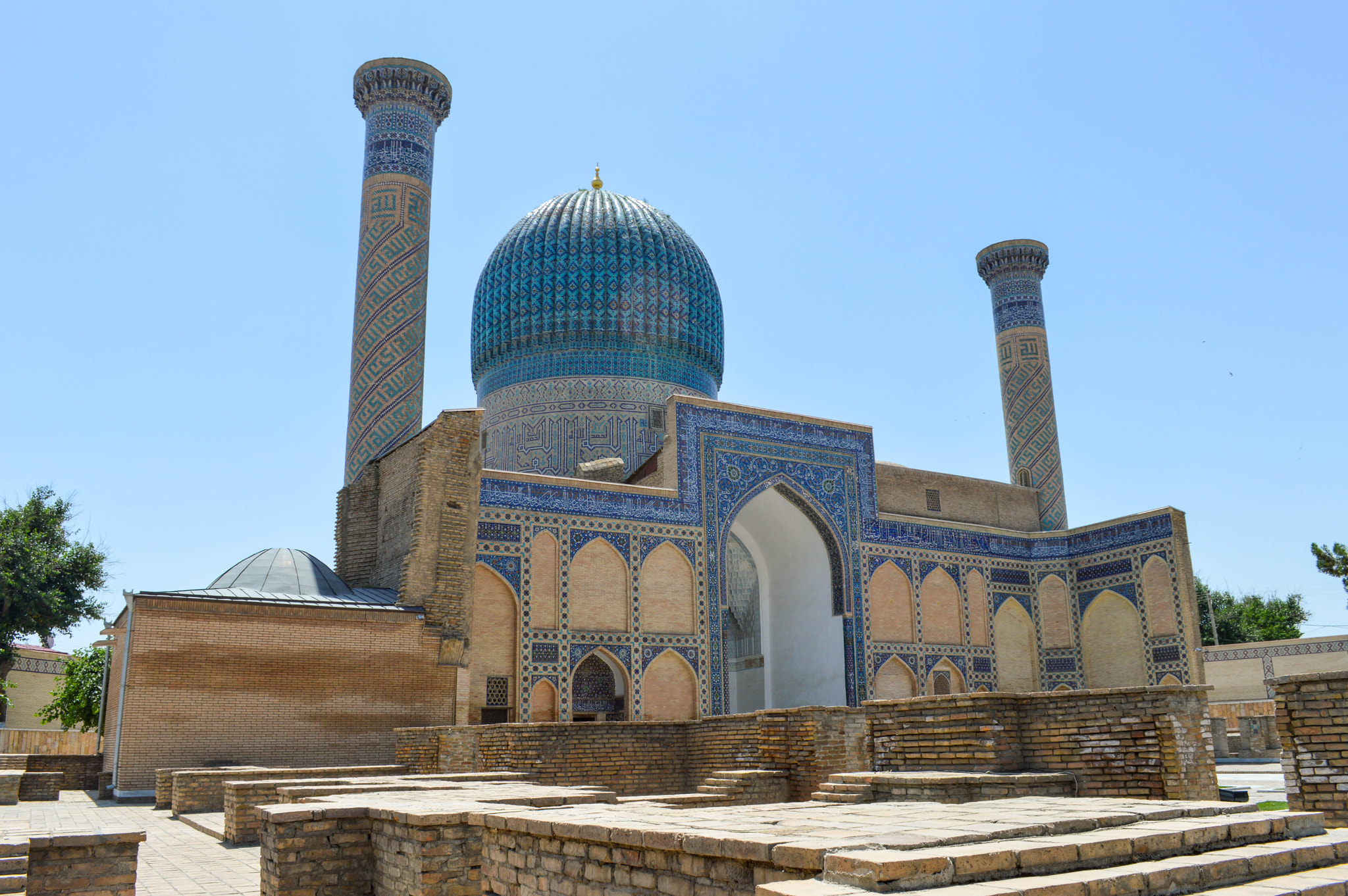 500px provided description: Mausoleum Courtyard [#sky ,#city ,#travel ,#religion ,#tower ,#old ,#tourism ,#architecture ,#building ,#culture ,#monument ,#stone ,#ancient ,#outdoors ,#dome ,#minaret ,#marble ,#grave ,#mausoleum ,#no person]